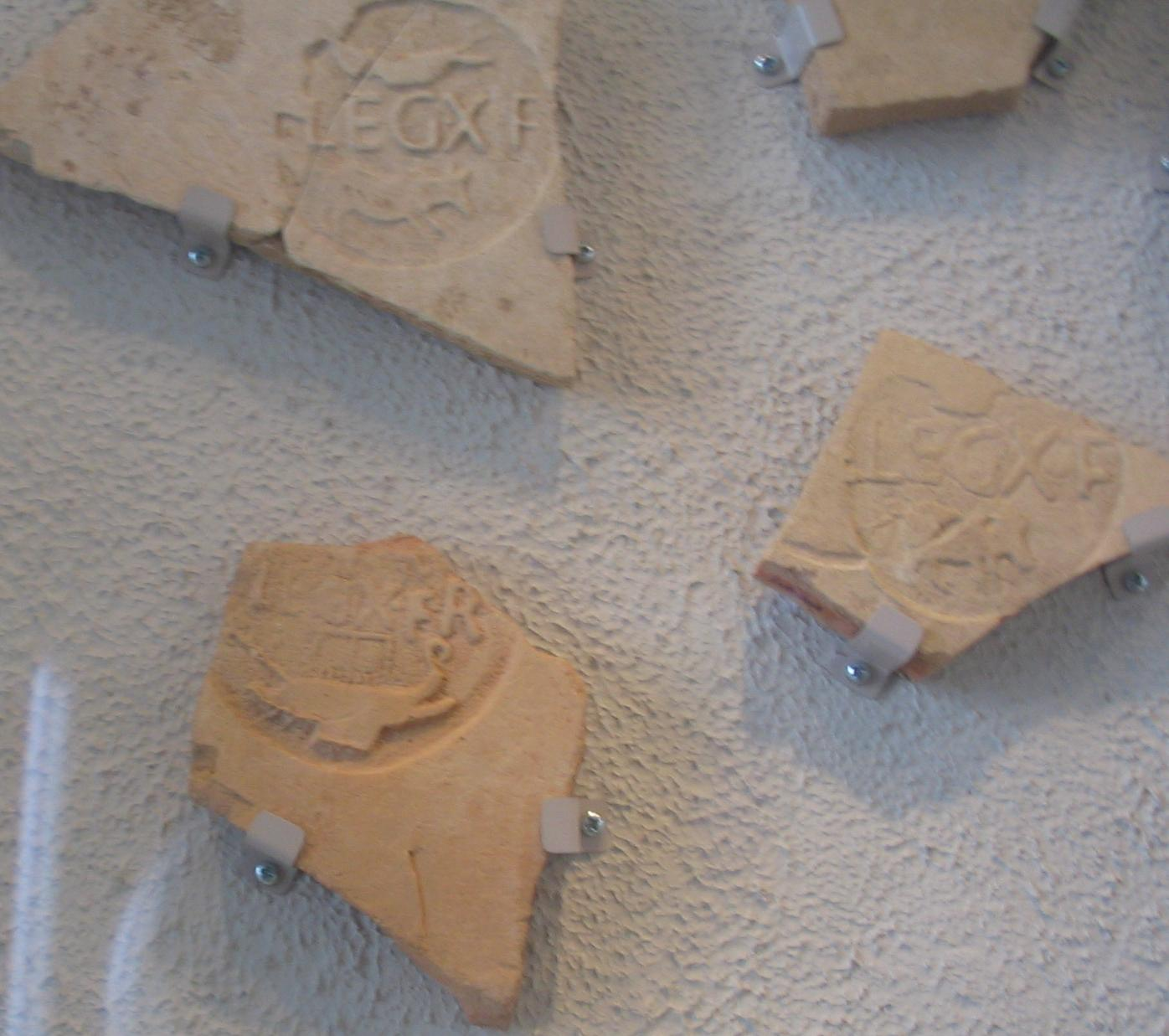 Round Stamp Impressions of the Legio X Fretensis that found in Givat Ram, Jerusalem Displayin International Convention Center (Jerusalem)